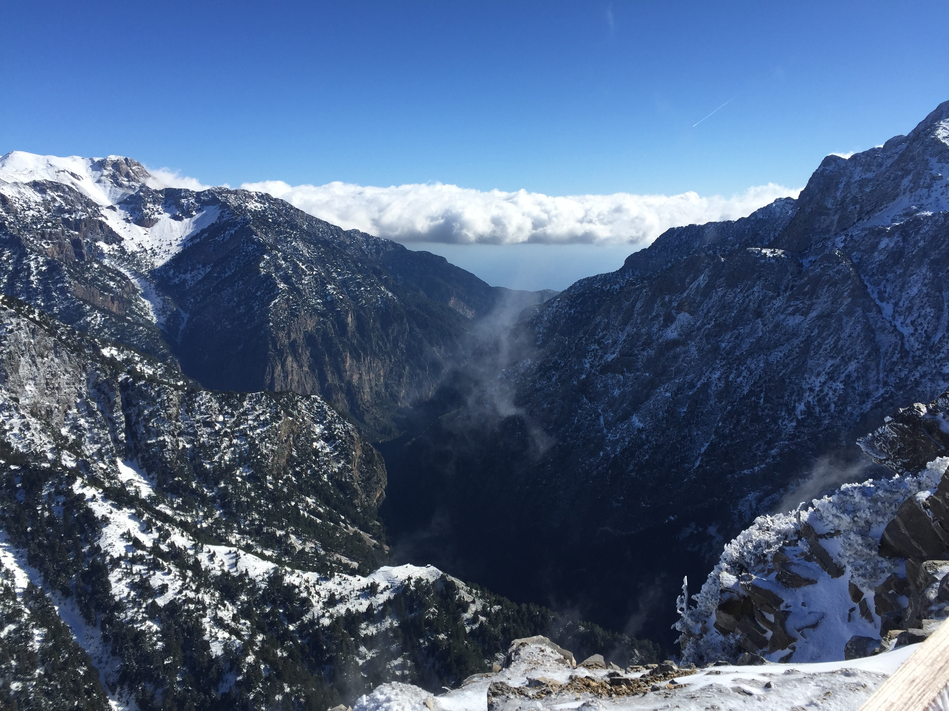 This is a photography of Natura 2000 protected area with ID GR4340008